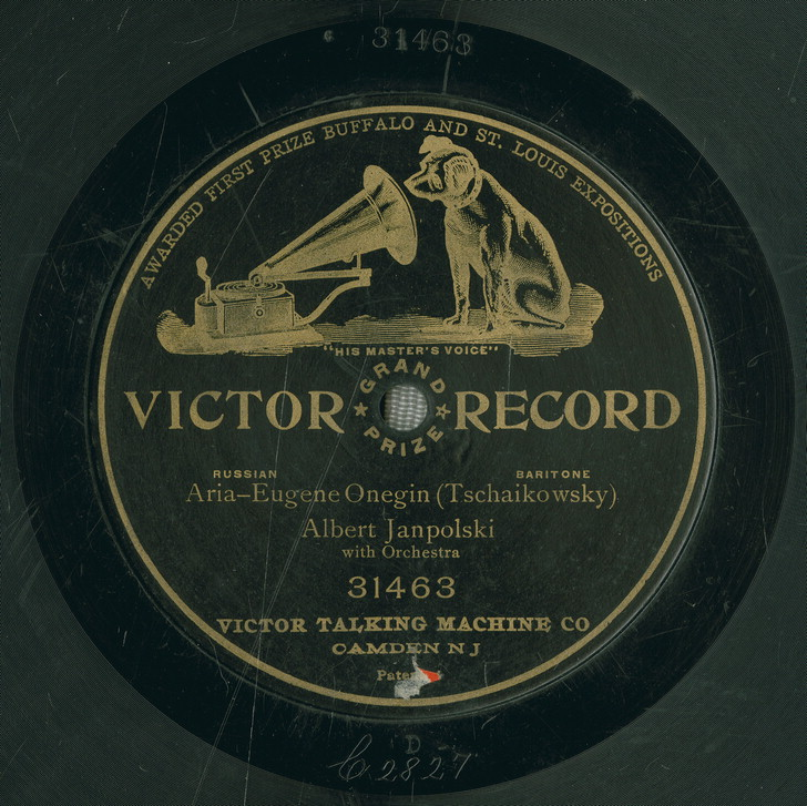 Victor 31463 image, Eugene Onegin : Aria composed by Peter Ilich Tchaikovsky, performed by Albert Janpolski